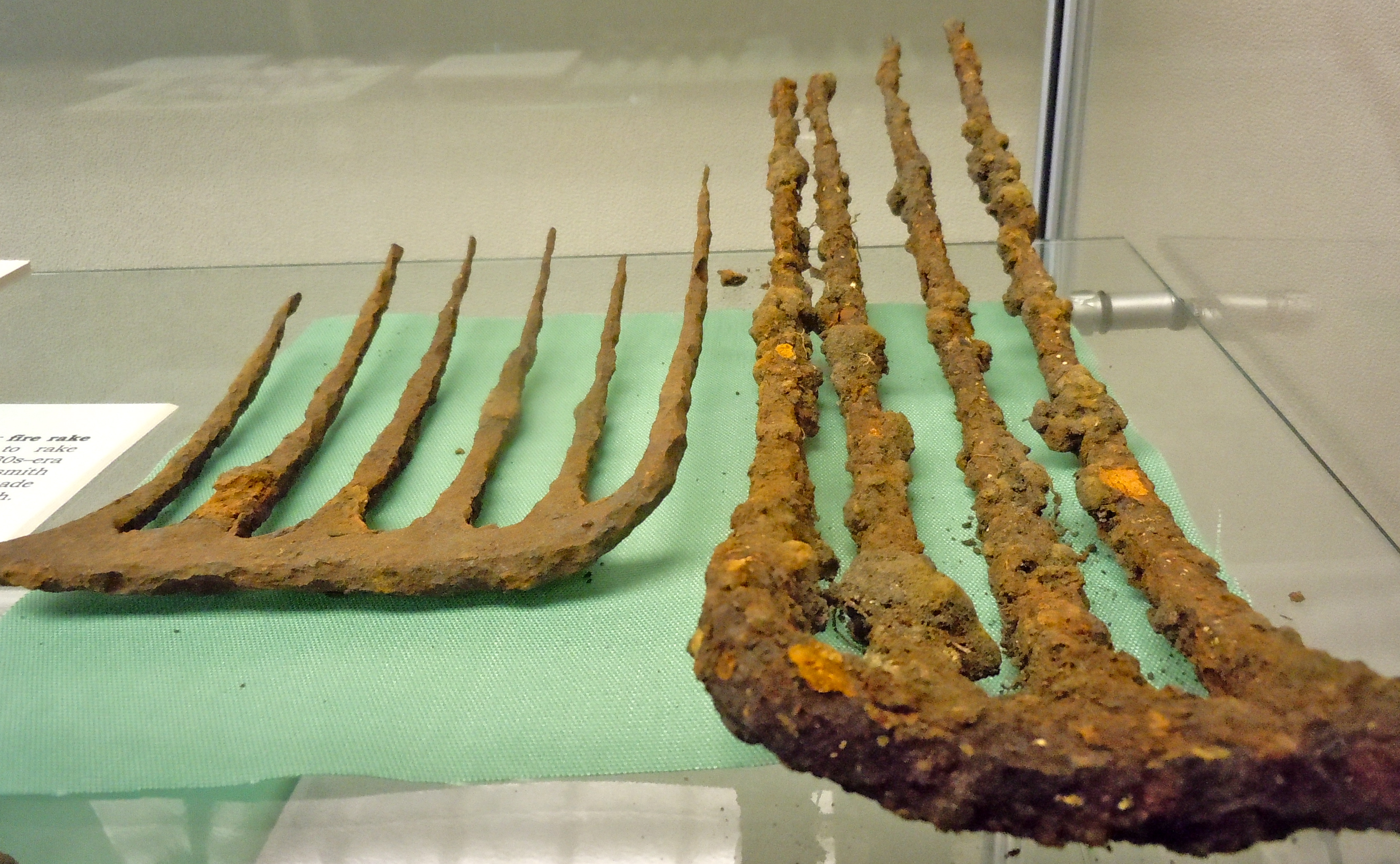 Fire rakes excavated at Duffy's Cut, Pennsylvania Museum location given.